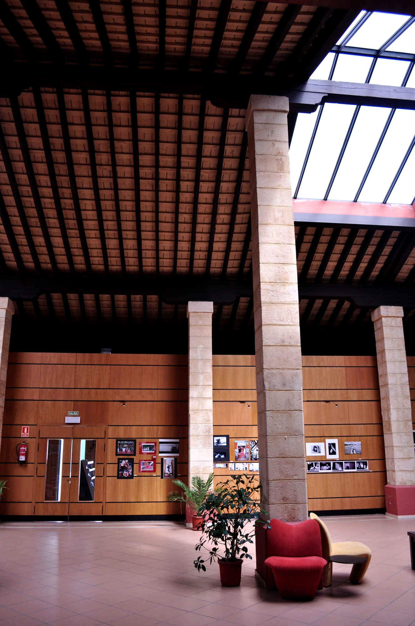 House of Youth, Jerez